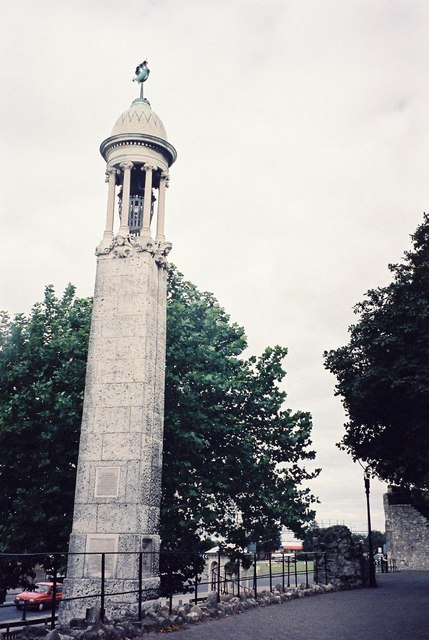 Southampton: Pilgrim Fathers' Memorial Situated at Cuckoo Lane, near the bottom of Bugle Street, this is close to 644633, through which the Pilgrim Fathers walked on their way to the New World.